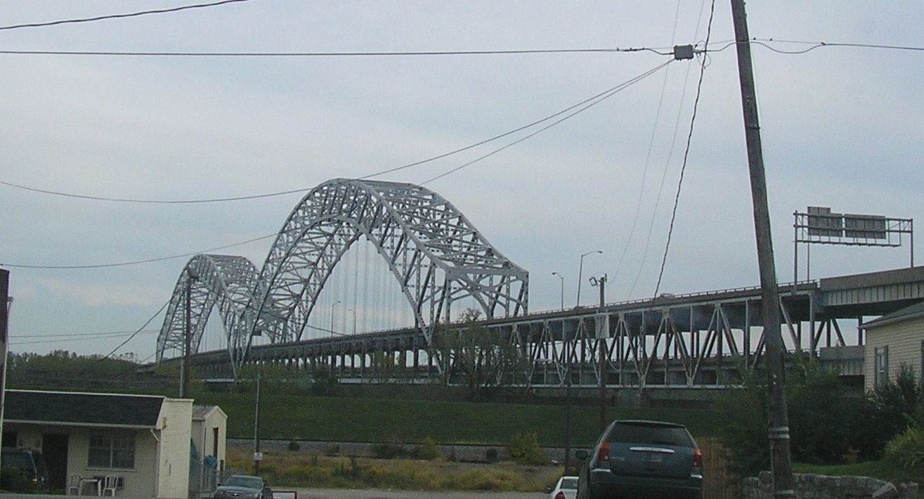 Sherman Minton Bridge over the Ohio River.